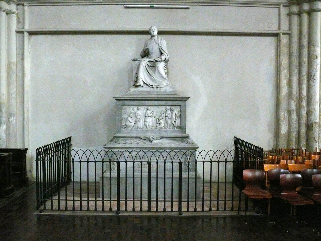 Monument for Pietro Metastasio, in the Minoritenkirche, Vienna. This monument, made by Vincenzo Lucardi, was erected in memory of the "Poet Laureate" Metastasio in 1855. In the central relief, Pope Pius VI is depicted blessing the dying Poet. Behind him the composer Antonio Salieri followed by composer Wolfgang Amadeus Mozart, while composer Joseph Haydn is looking at the Pope.